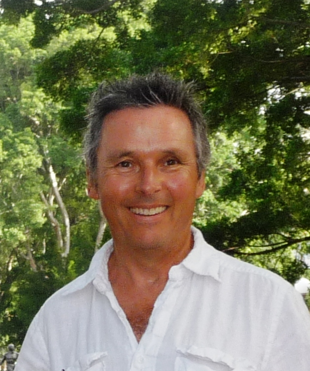 Professor Jonathan Potter, photographed in Sydney